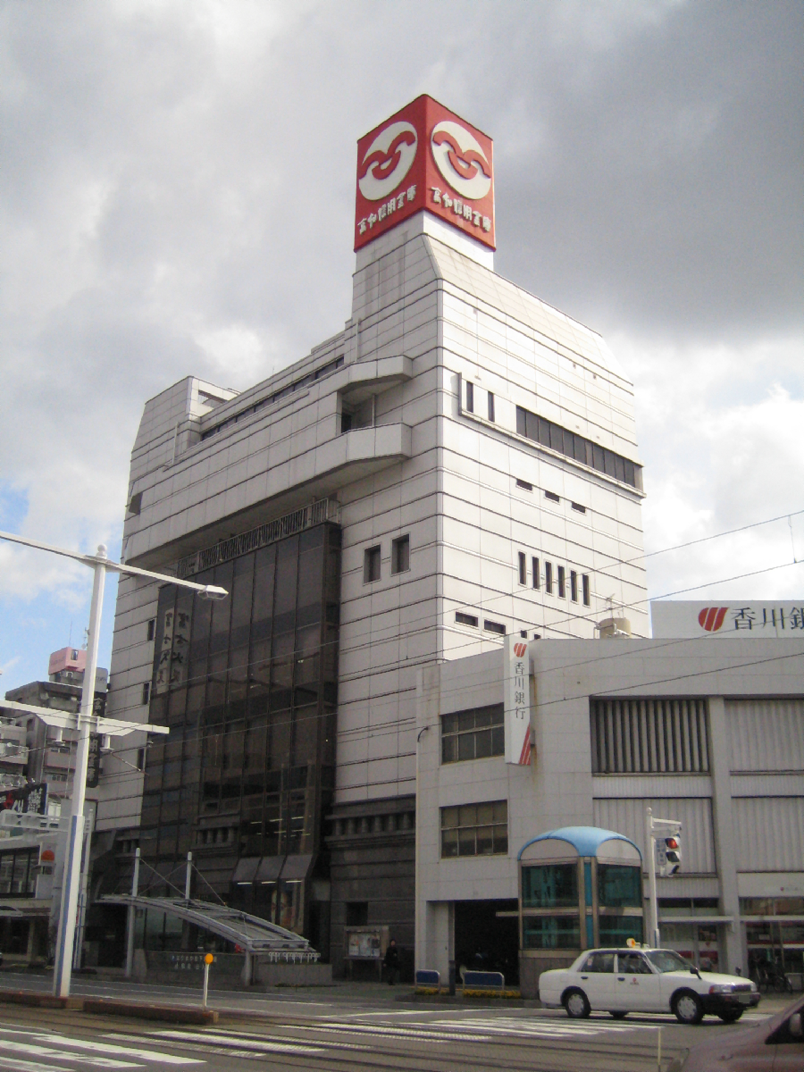 Kochi Shinkin Bank head office.